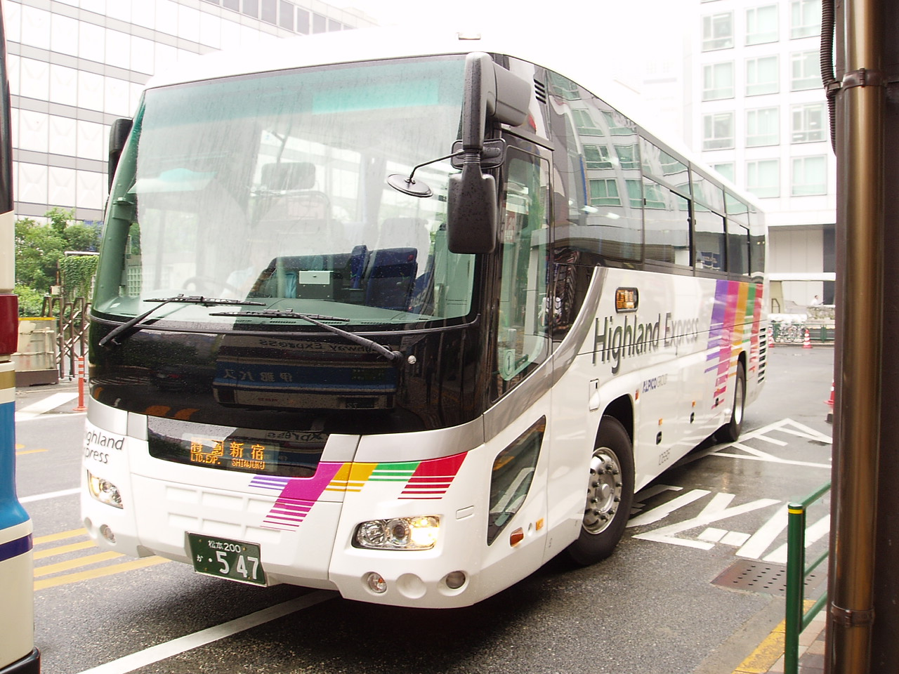 Matsumoto Electric Railway 10695 "Chuo Highway Bus" Isuzu ADG-RU1ESAJ at Shinjuku Sta.